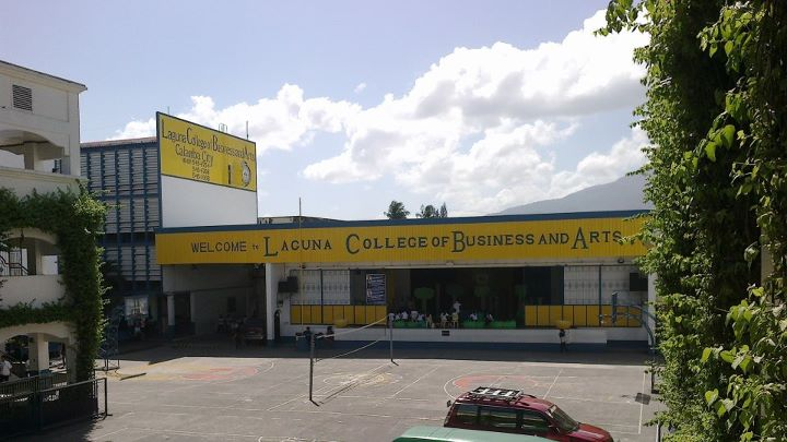 The newly painted and refurnished quadrangle of LCBA-Calamba.